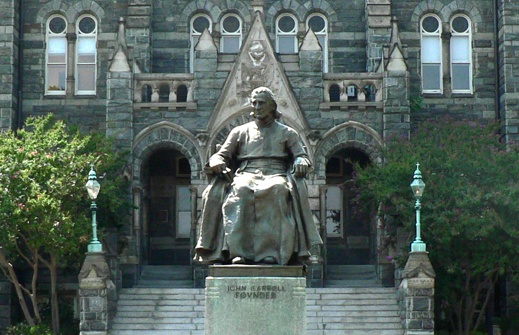 Statue of Father John Carroll in front of Healy Hall inside the front gates of Georgetown University, sculpted by Jerome Connor